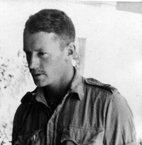 Flight Lieutenant Ian Smith of the Royal Air Force, pictured in either 1942 or 1943, during his service in the Second World War. Smith was later Prime Minister of Rhodesia between 1964 and 1979.